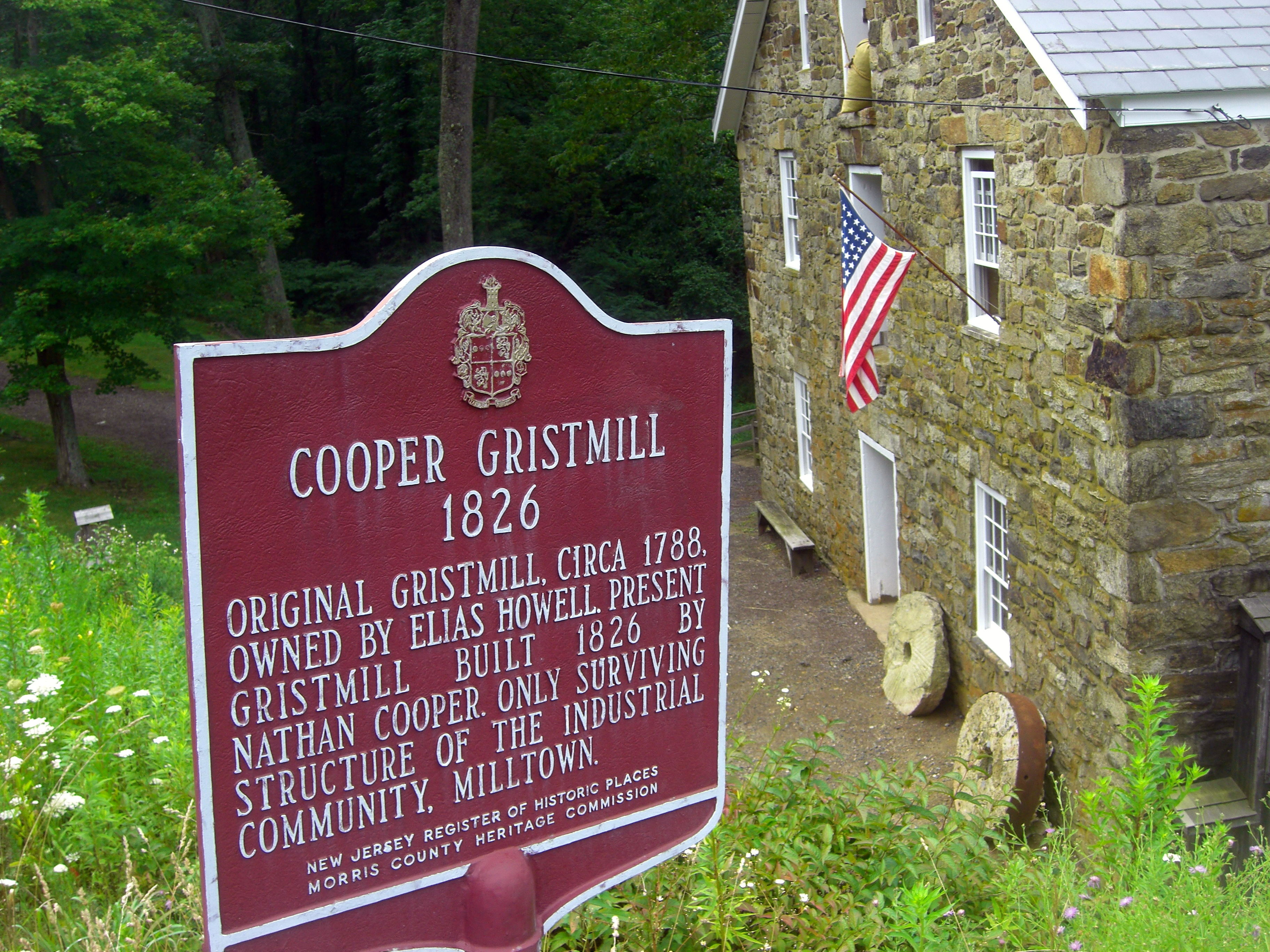 The Cooper Mill in Chester as viewed from Route 513.